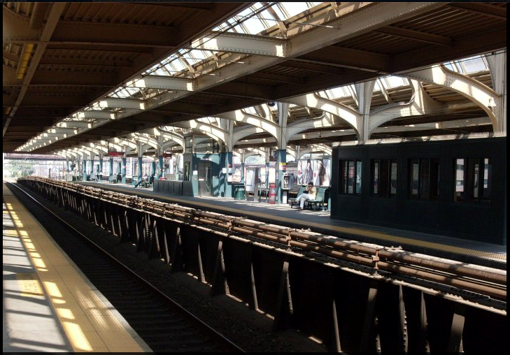 Picture of the upper passenger platform at 30th Street AMTRAK/SEPTA Station in Philadelphia.